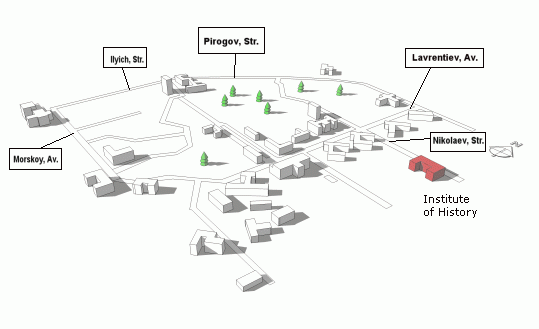 Scheme of perspective view of Novosibirsk Academgorodok with some streets and the location of Institute of History